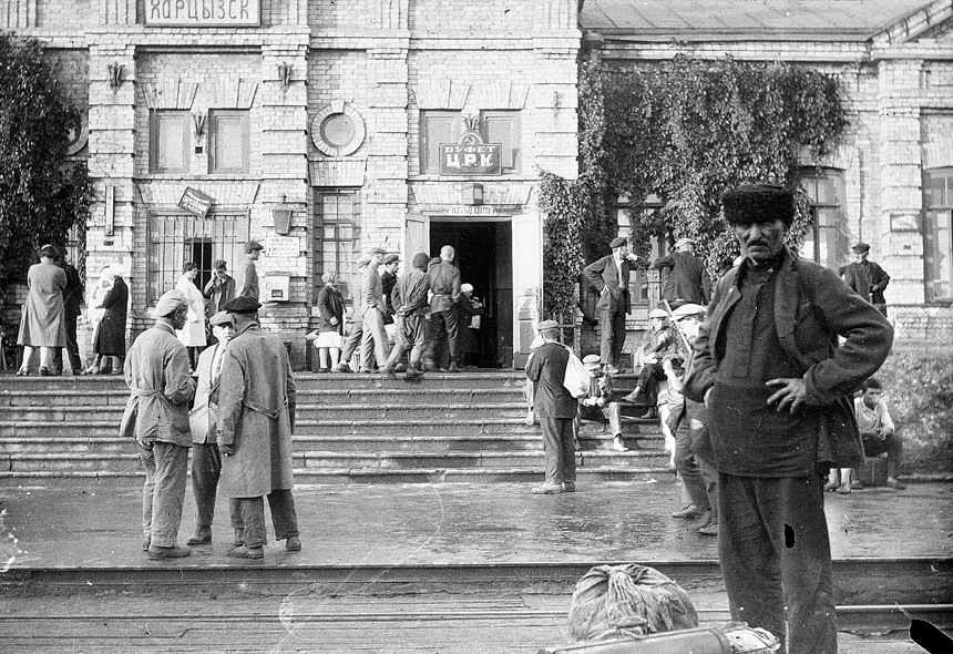 Khartsyzk Train Station in late 1920s